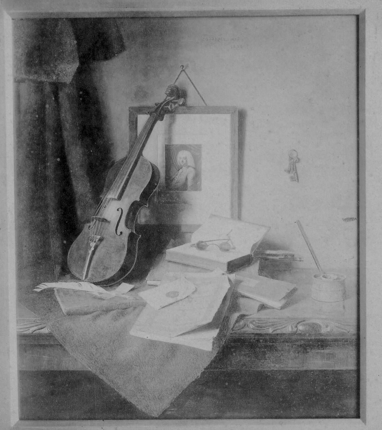 Old black & white photo of an Oil painting by E G Handel Lucas, painted in 1887